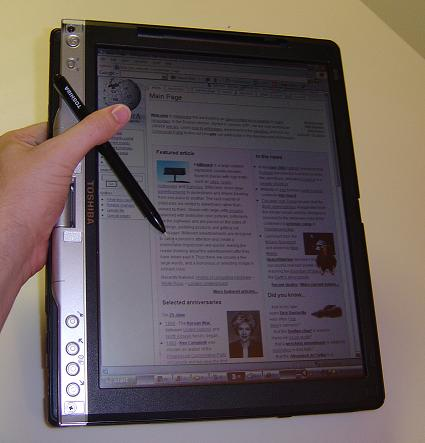 Pic of Toshiba Portege 3500 tablet PC, taken by Seth Ilys, 25 June 2004